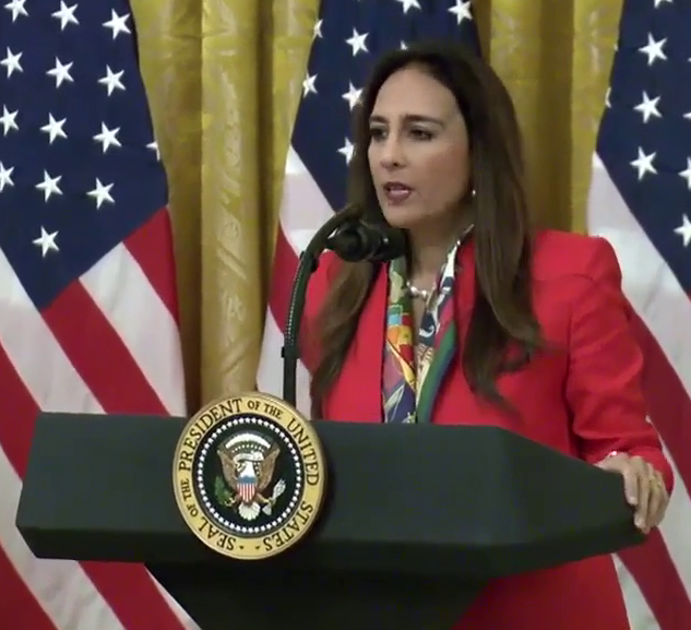 American lawyer and Republican party official Harmeet Dhillon speaks at the White House's Social Media Summit.